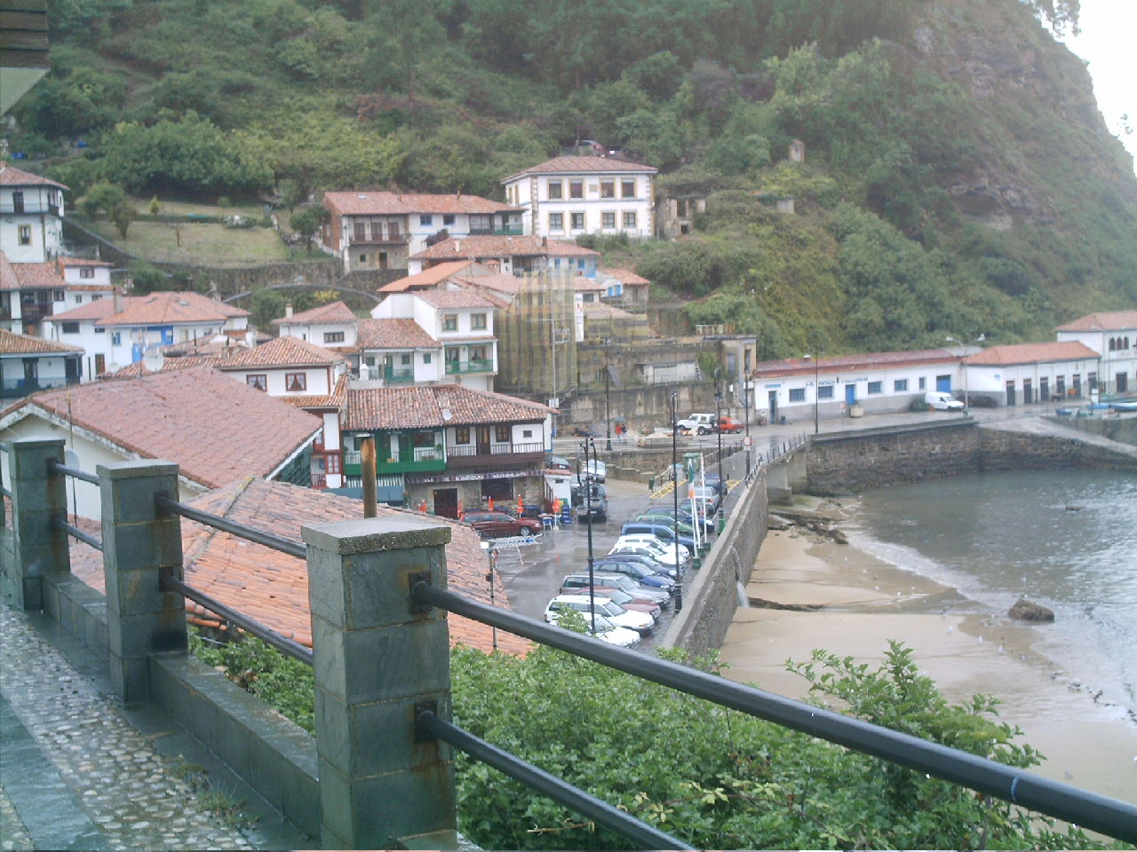 Picture of San Roque neighborhood Bowl (Villaviciosa, Asturias, Spain) taken with a camera BENQ DC E30 on 6 September 2005.